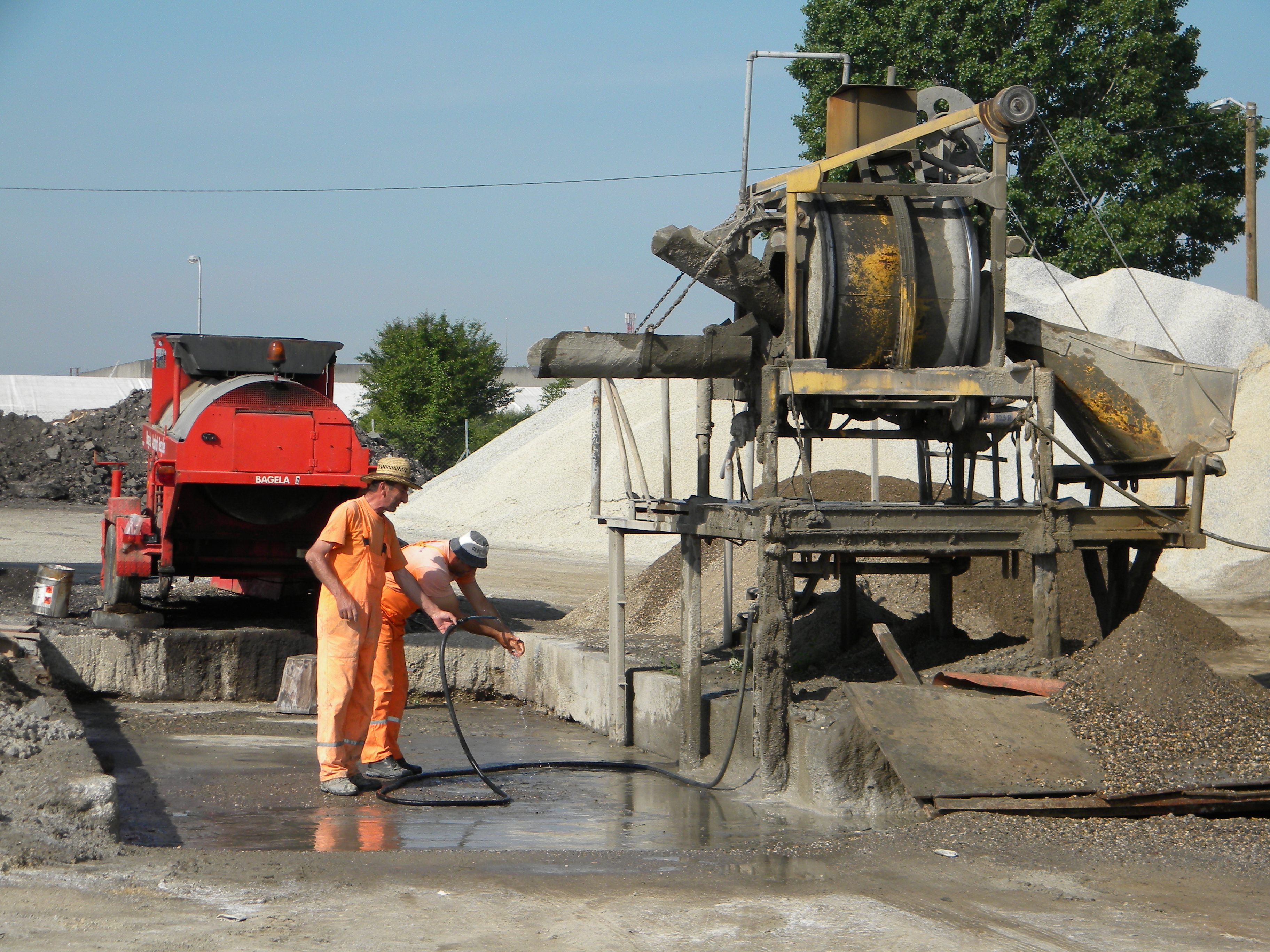 JKP Niskogradnja City of Kragujevac